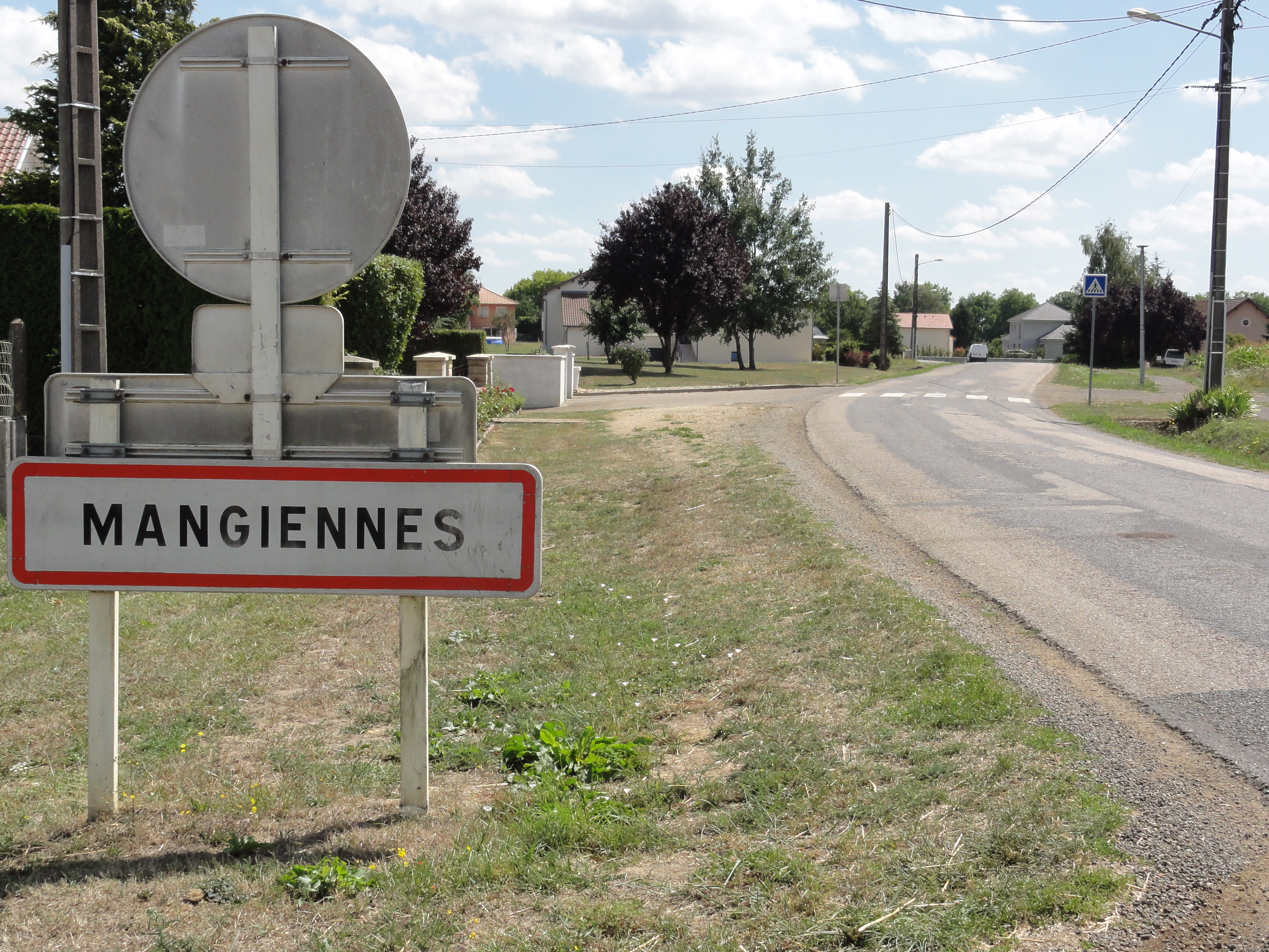 Mangiennes (Meuse) city limit sign